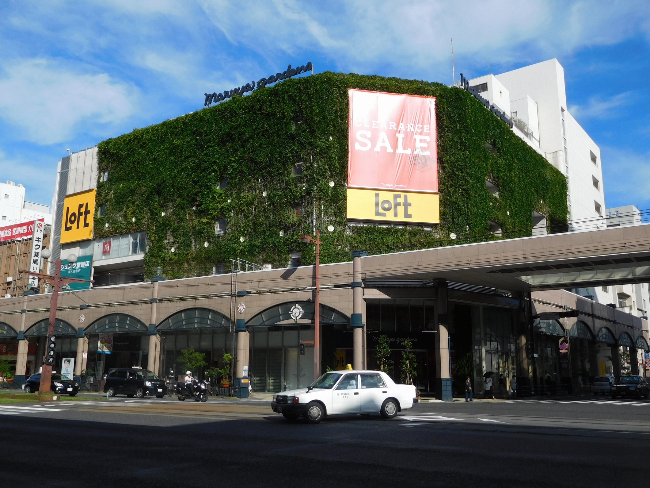 The Maruya Gardens is in Central Kagoshima City (Tenmonkan), Japan.